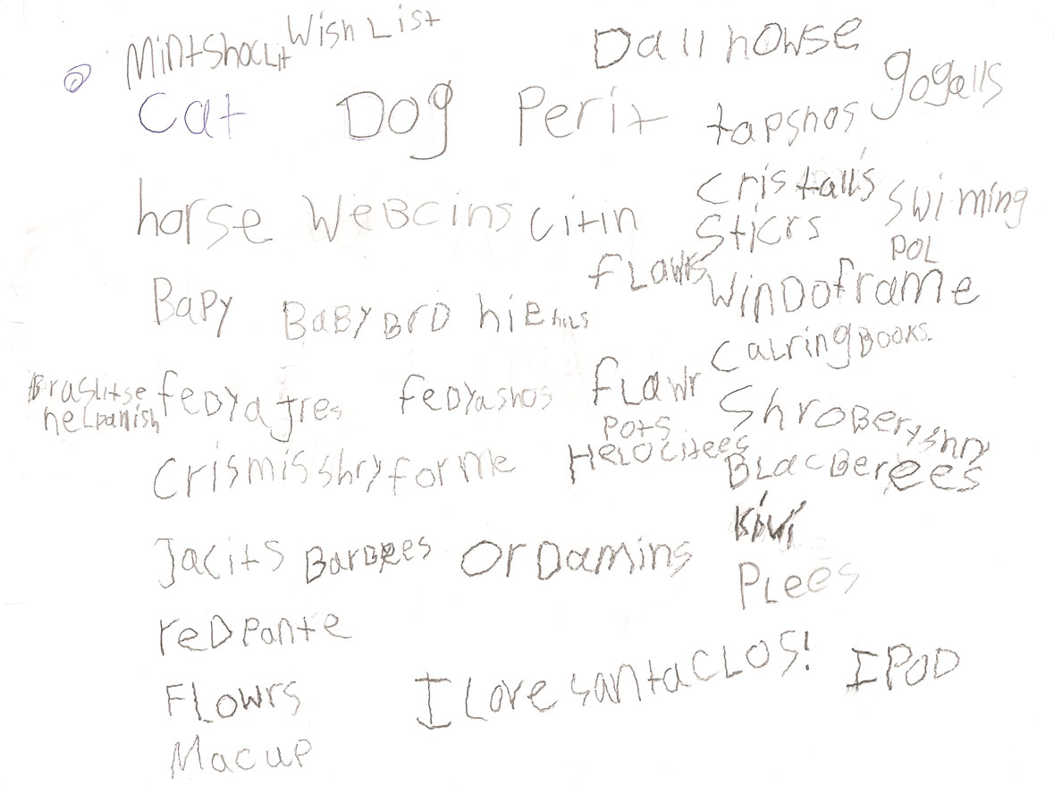 A girl's wish list for Santa Claus.